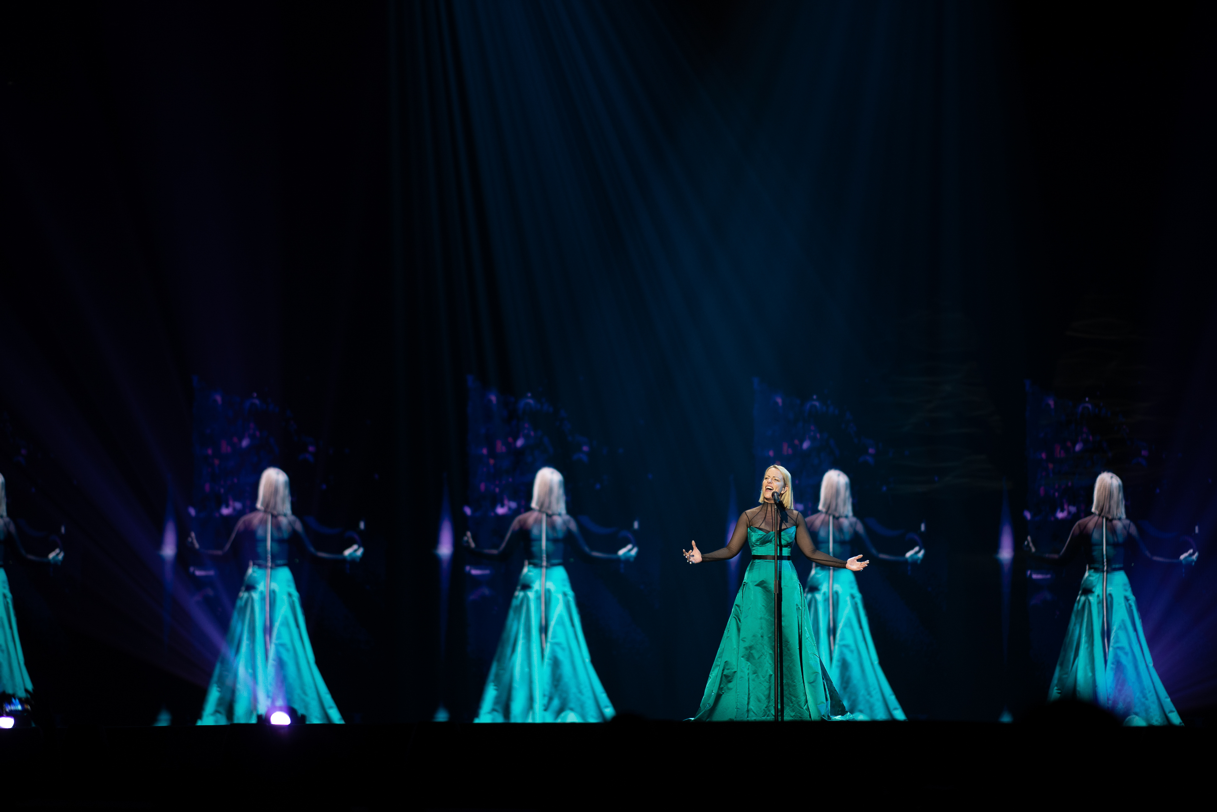 Tamara Todevska representing North Macedonia with the song "Proud" during a rehearsal before the grand final of the Eurovision Song Contest 2019 in Tel-Aviv.